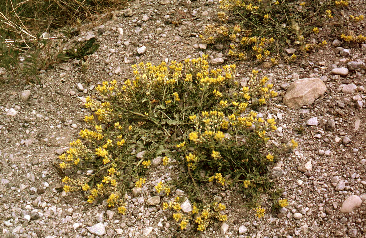 Rorippa columbiae — yellow watercress. In Fremont-Winema National Forest, southeastern Oregon. US Forest Service photo, no copyright indicated, not posted elsewhere.